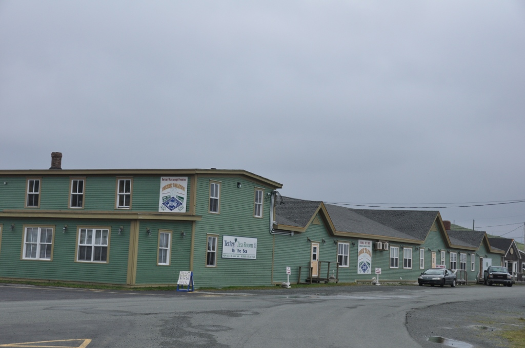 Bernard Kavanagh Premises Municipal Heritage Site, Ferryland, Newfoundland.